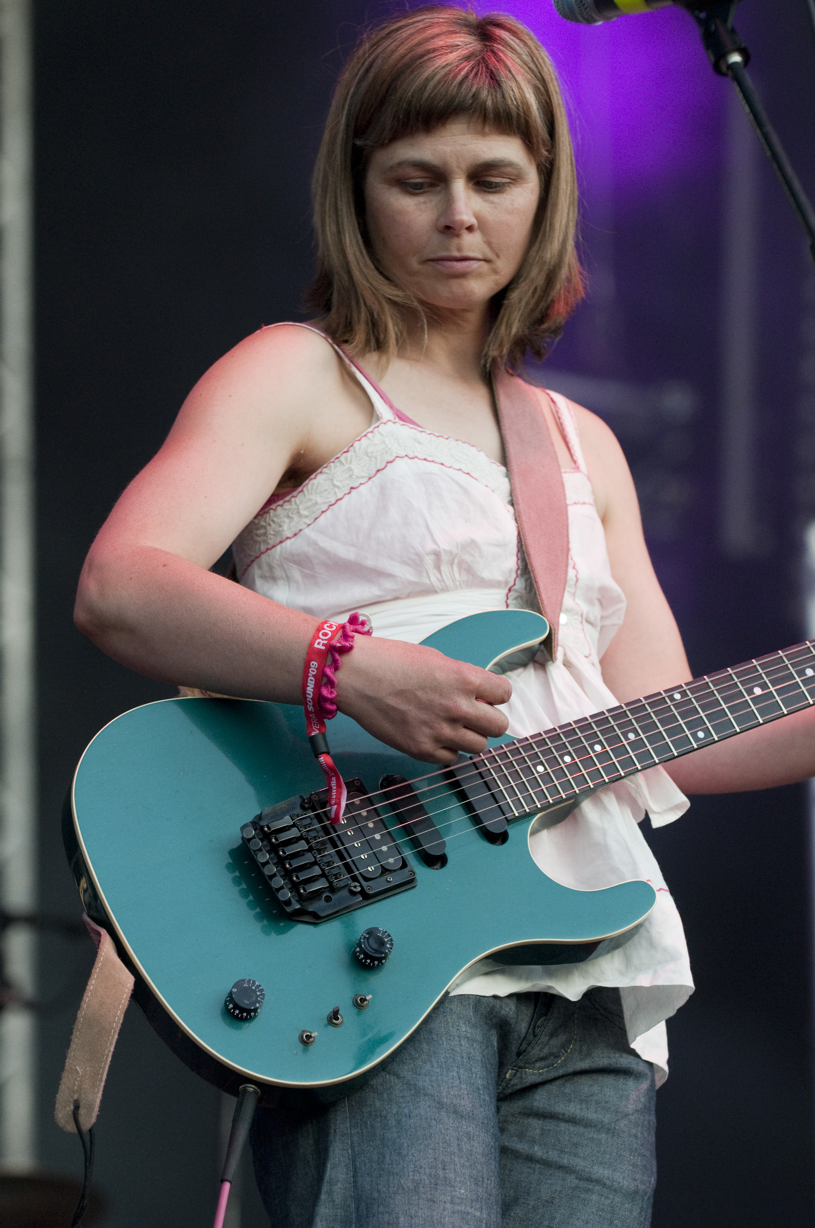 The Vaselines